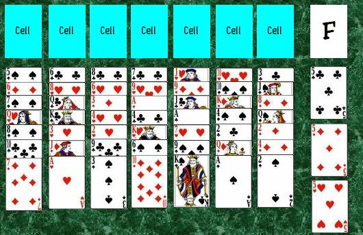 This is a diagram of the game of Penguin, based on an actual layout. The image is made in Microsoft Paint and the cards used were based on the SVG Playing Cards.